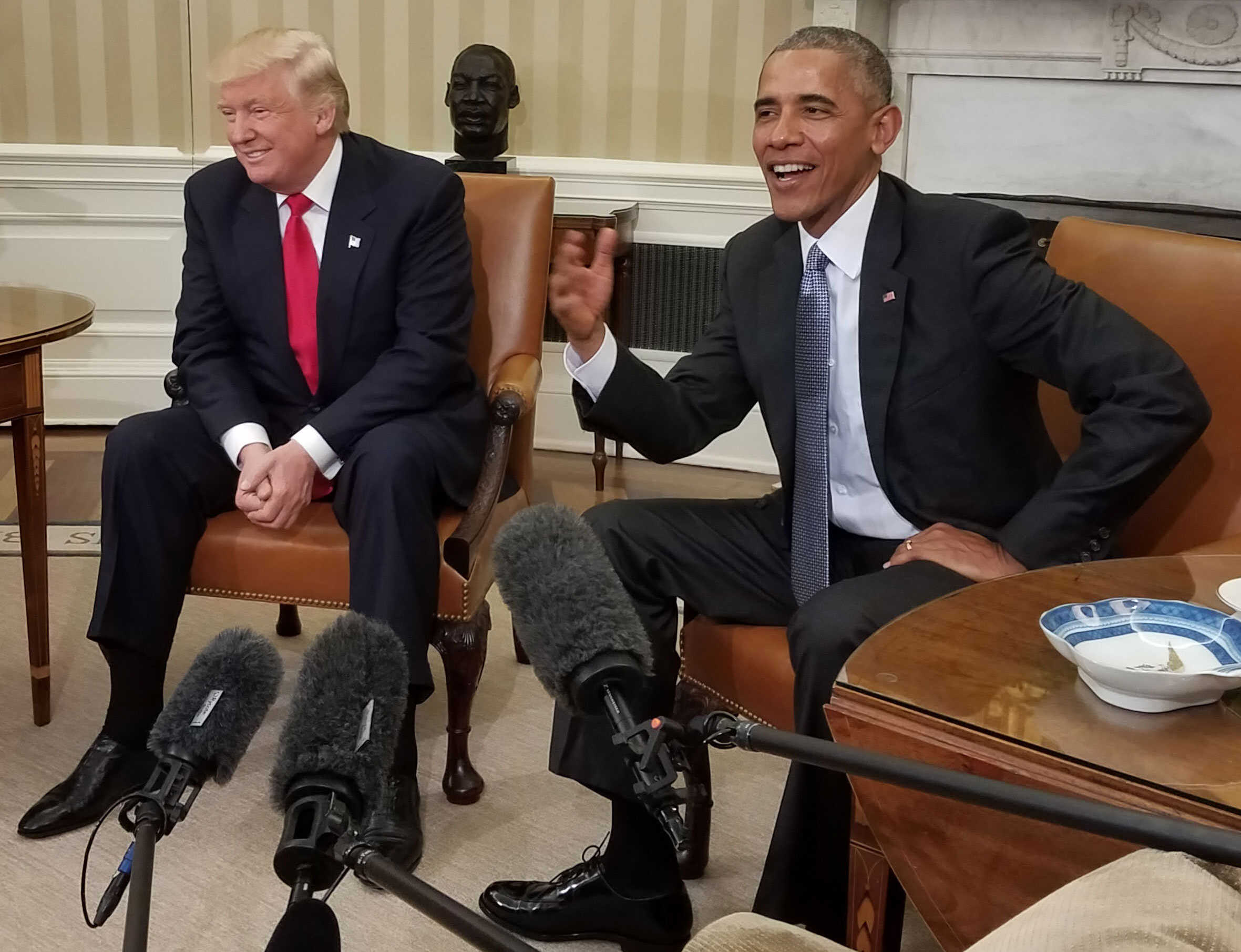 President Barack Obama meets with President-elect Donald Trump at the White House, Nov. 10, 2016. (Photo: J. Oni / VOA)